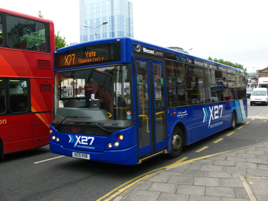 Wessex Connect's route-branded AE10 KHB in Bristol City Centre on service X27 to Yate.